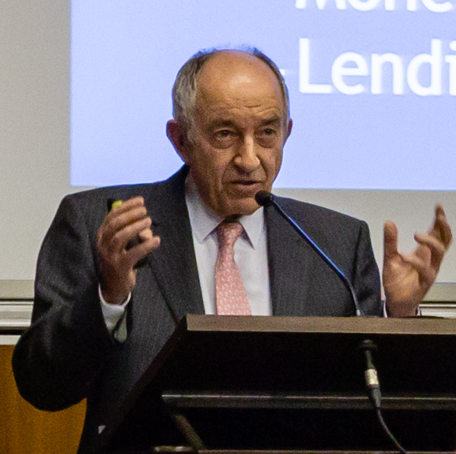 “Secure Money and Banking Liberalization”. Keynote speech by Miguel Ángel Fernández Ordóñez, former governor of the Bank of Spain. Inaugurating conference of Positive Money Europe in Brussels (23 May 2018).